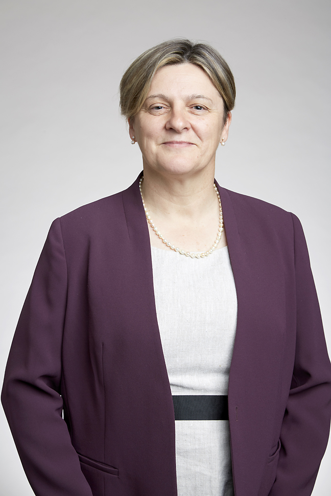 Wendy Anne Bickmore (born 1961) is a British genome biologist, Director of the MRC Human Genetics Unit at the University of Edinburgh and President of The Genetics Society. Attribution: The Royal Society